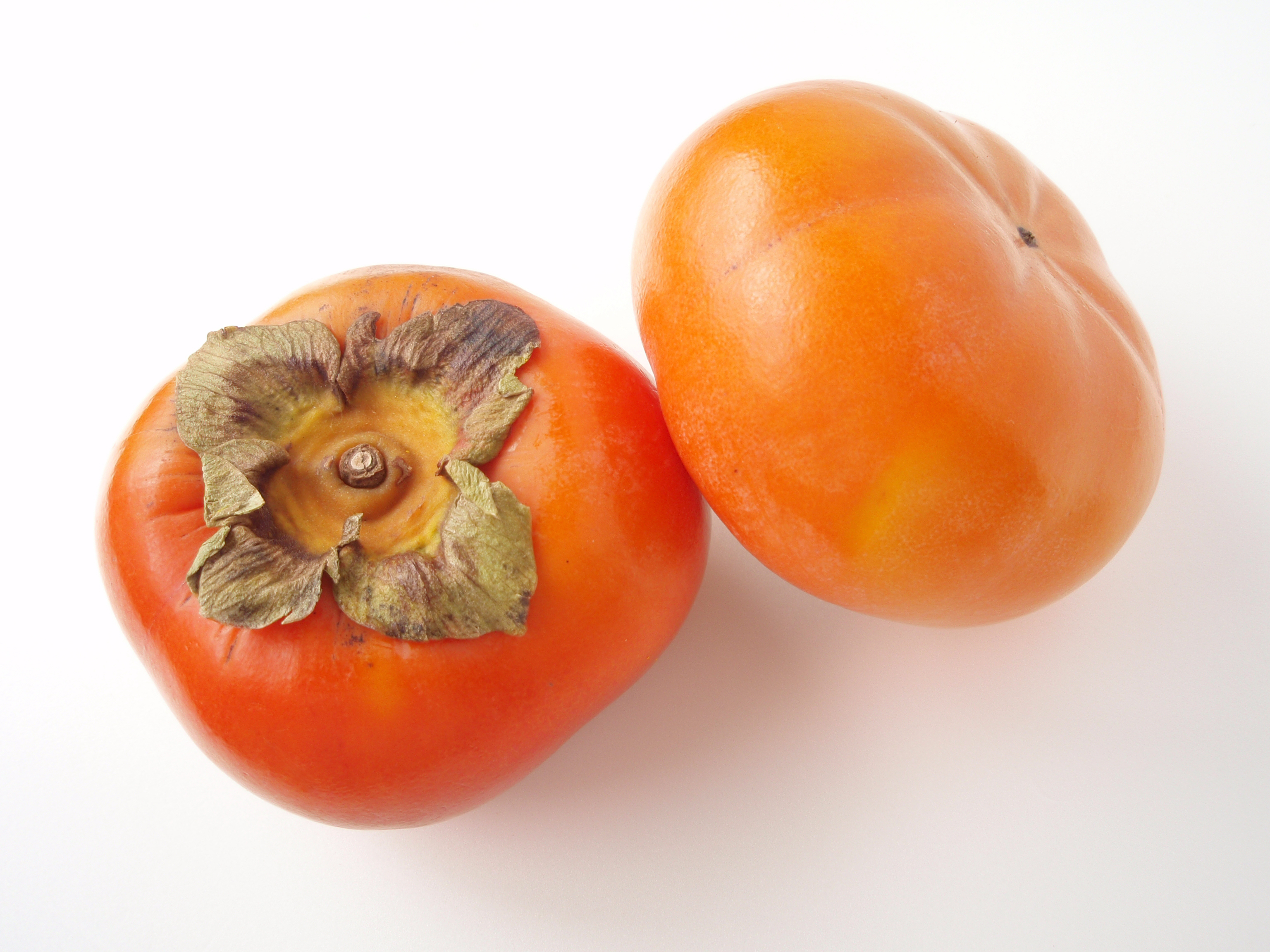 Diospyros kaki 'Jiro' (Persimmon)